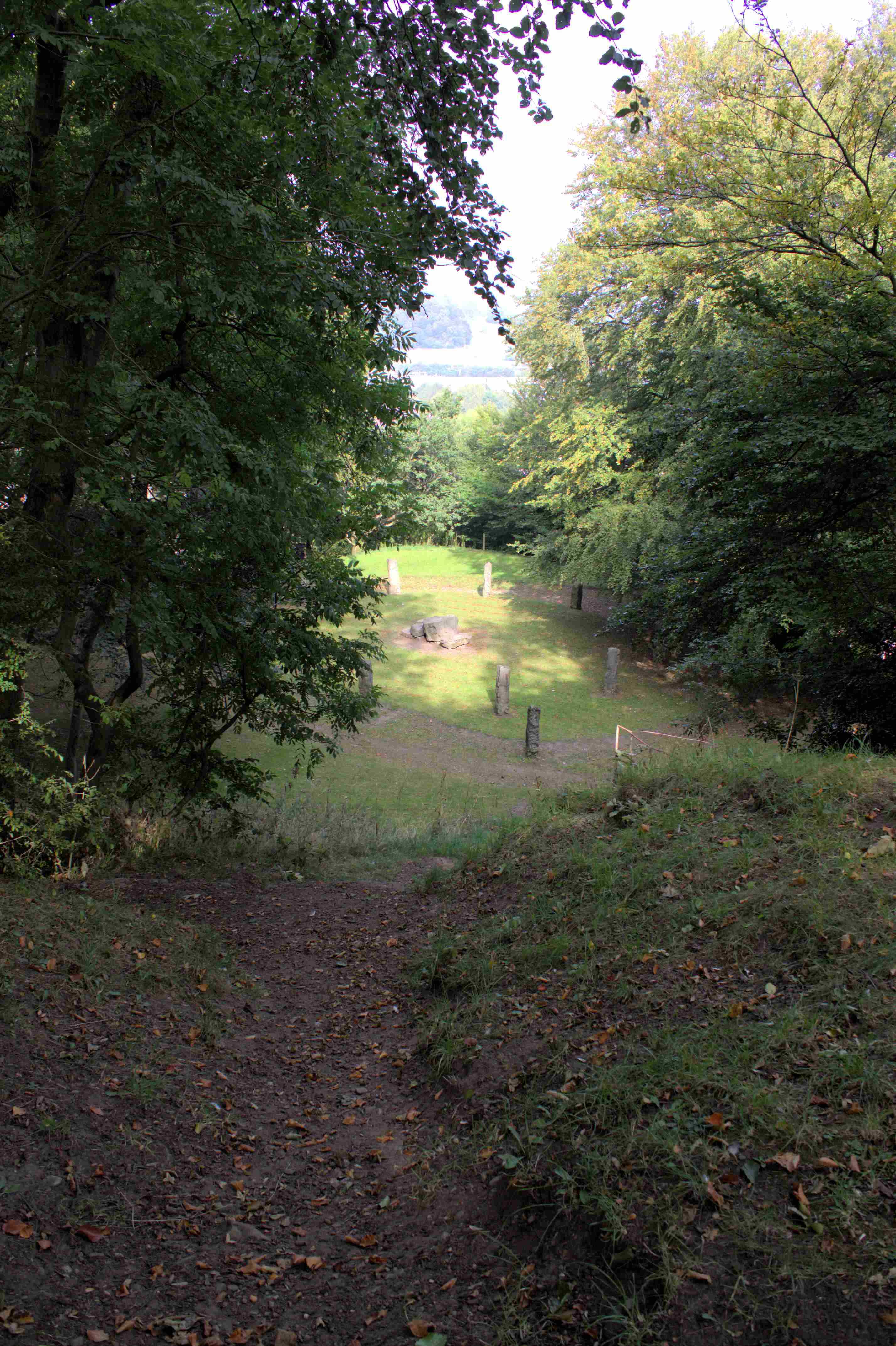 Bailey Hill, Mold, Flintshire, North Wales: site of a castle dating from 1100. Outer bailey, with Gorsedd stone circle.